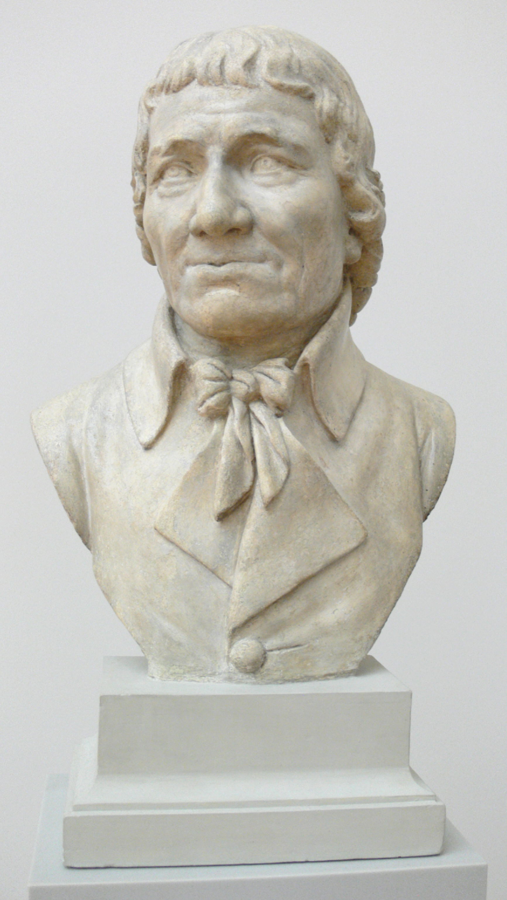 Emanuel Bardou: Daniel Chodowiecki, Berlin 1801, plaster